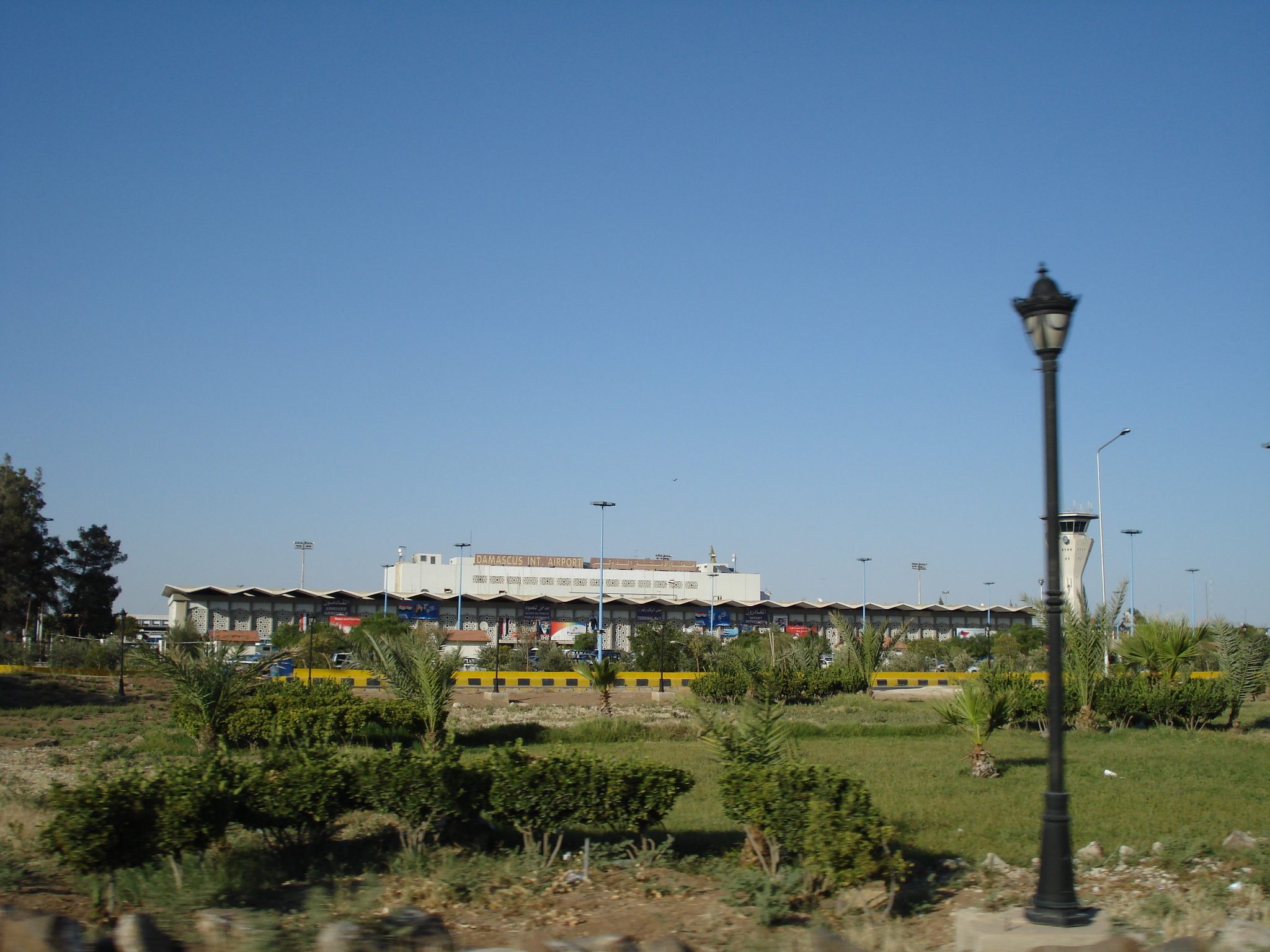 Damascus international Airport